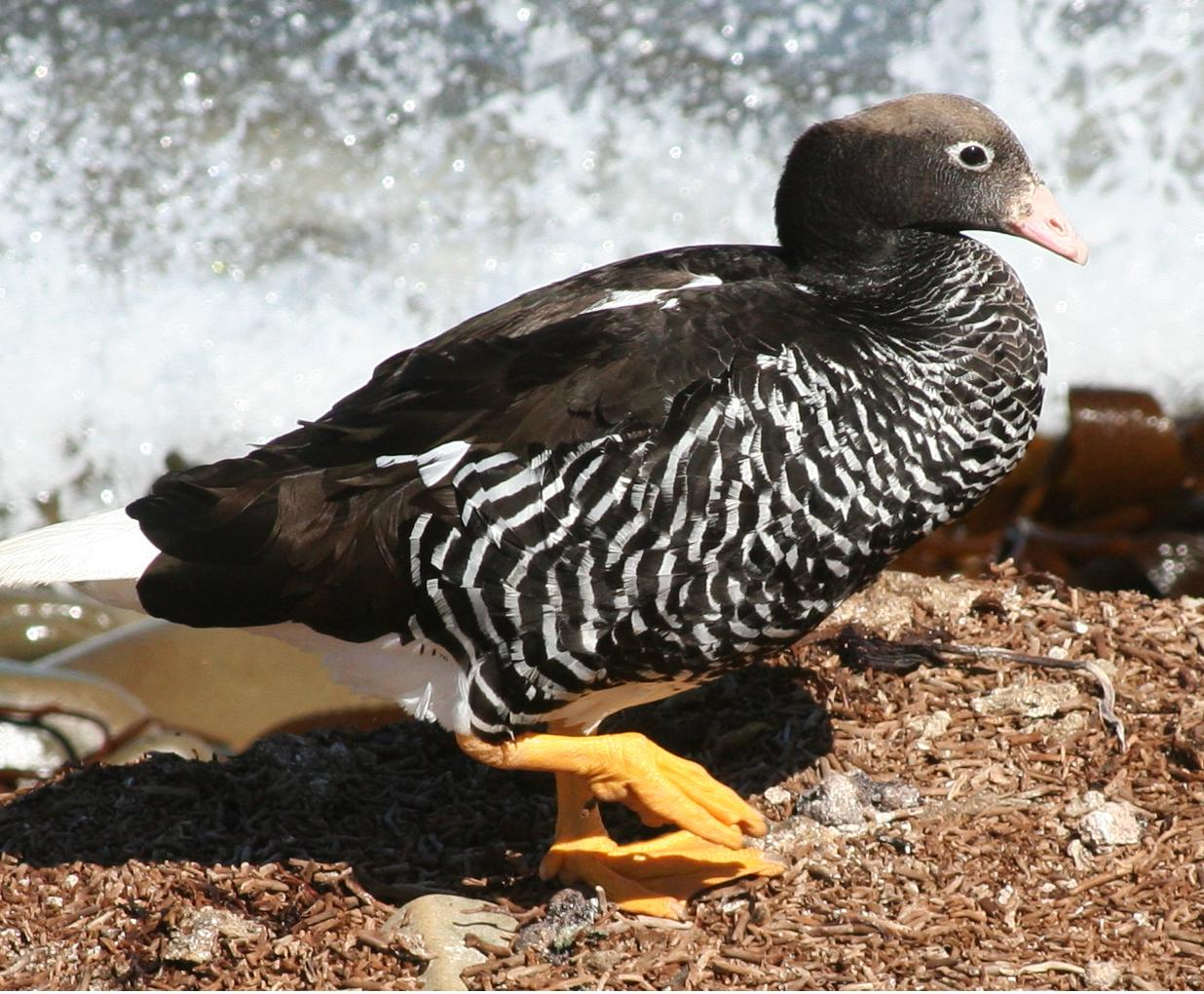 A female Kelp Goose on the far end of Bertha's Beach, East Falkland.